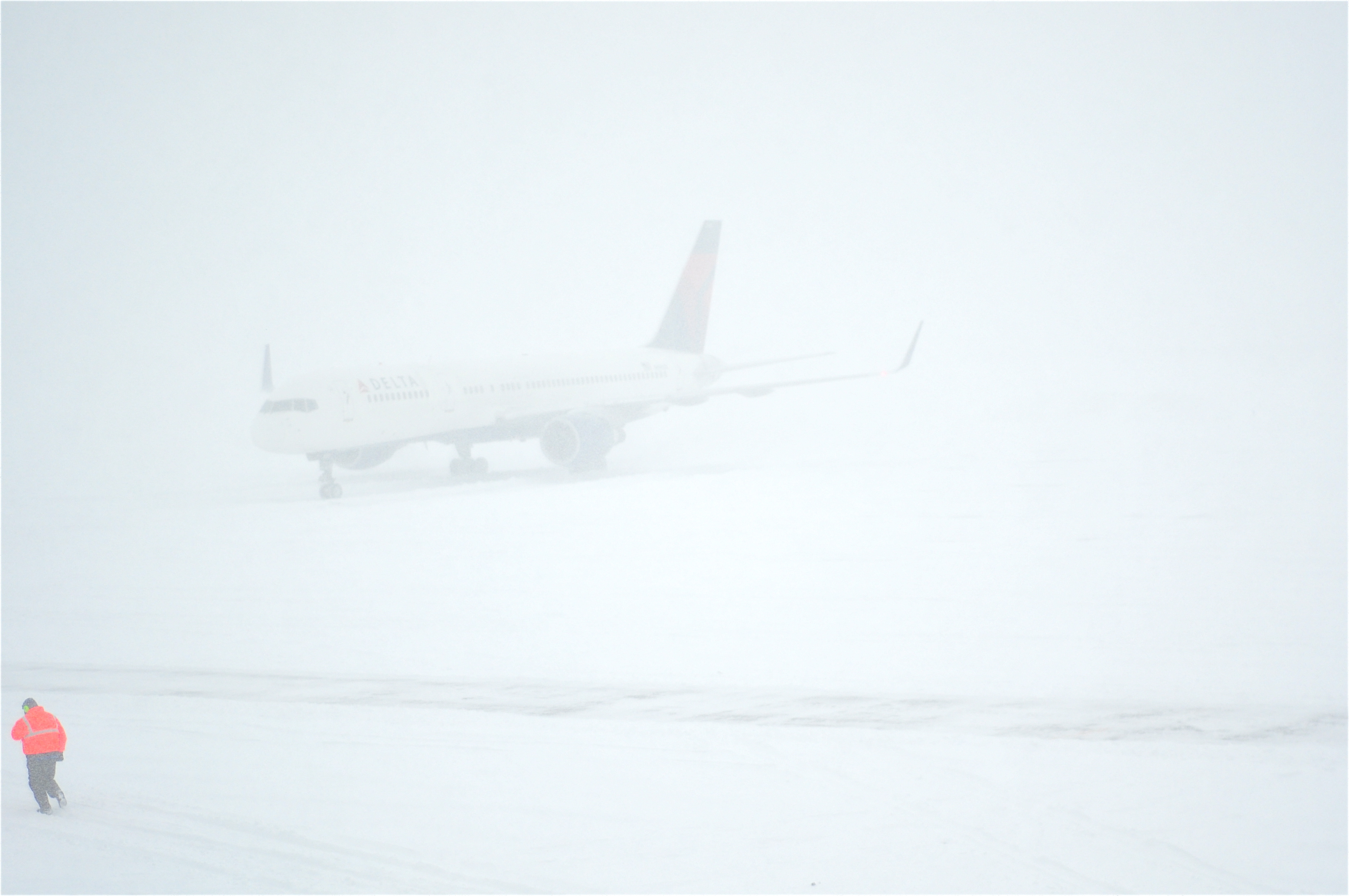 Almost whiteout conditions at the Twin Cities Minneapolis-St Paul International Airport. The aircraft belongs to Delta Air Lines. Picture taken on 11 December 2010.